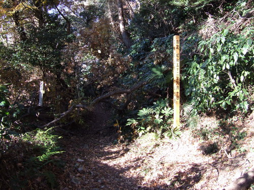 The Daibutsu Pass of Kamakura's Seven Entrances